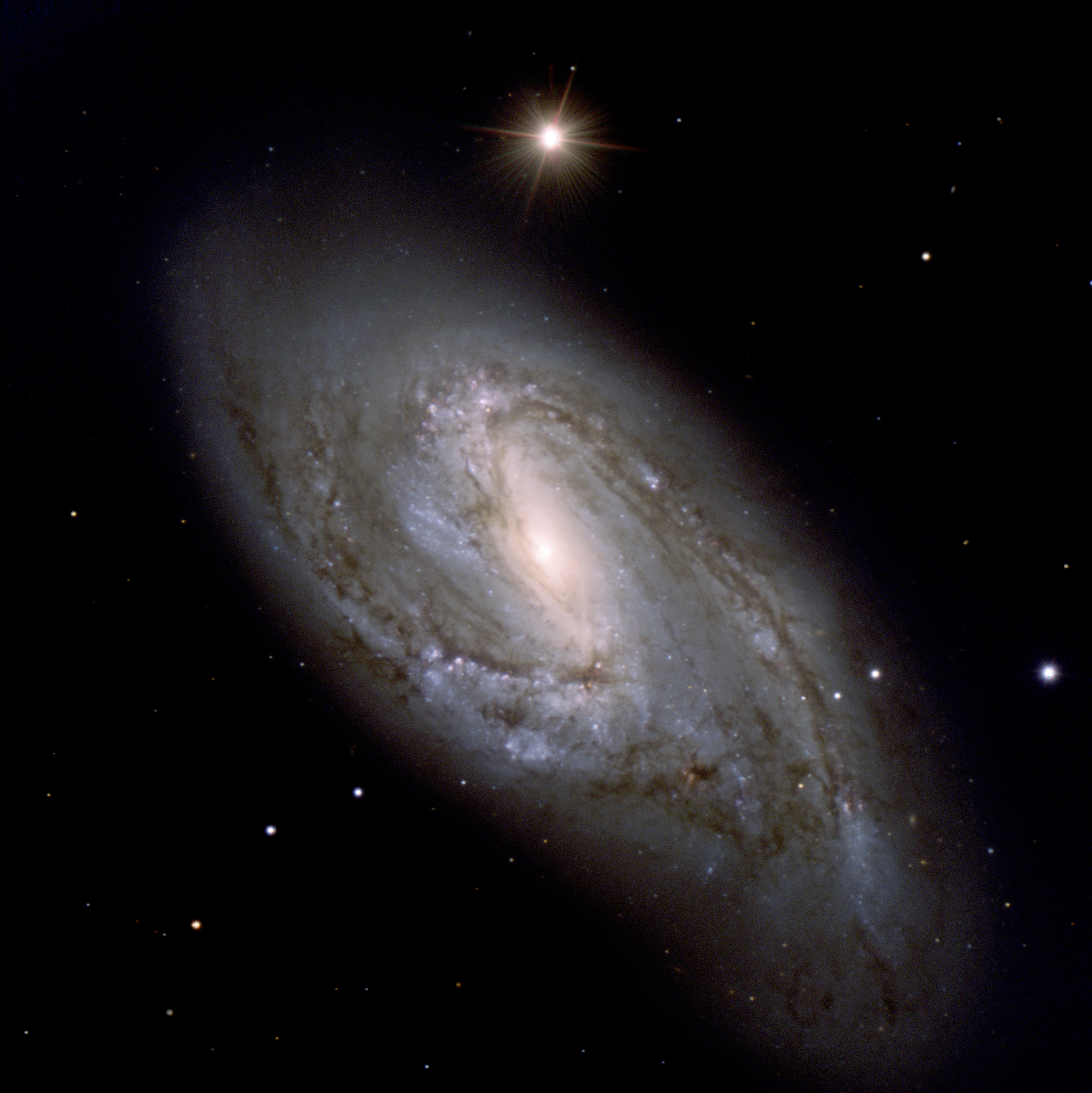 Colour composite image of the spiral galaxy M 66 (or NGC 3627) obtained with the FORS1 and FORS2 multi-mode instruments (at VLT MELIPAL and YEPUN, respectively). NGC 3627 is located in the constellation Leo (The Lion). It is a beautiful spiral with a well-developed central bulge. It also displays large-scale dust lanes. Many regions of warm hydrogen gas are seen throughout the disc of this galaxy. The latter regions are being ionised by radiation from clusters of newborn stars. North towards upper left, West towards upper right. ID: phot-33c-03-fullres Size: 2300x2294 Credit: ESO